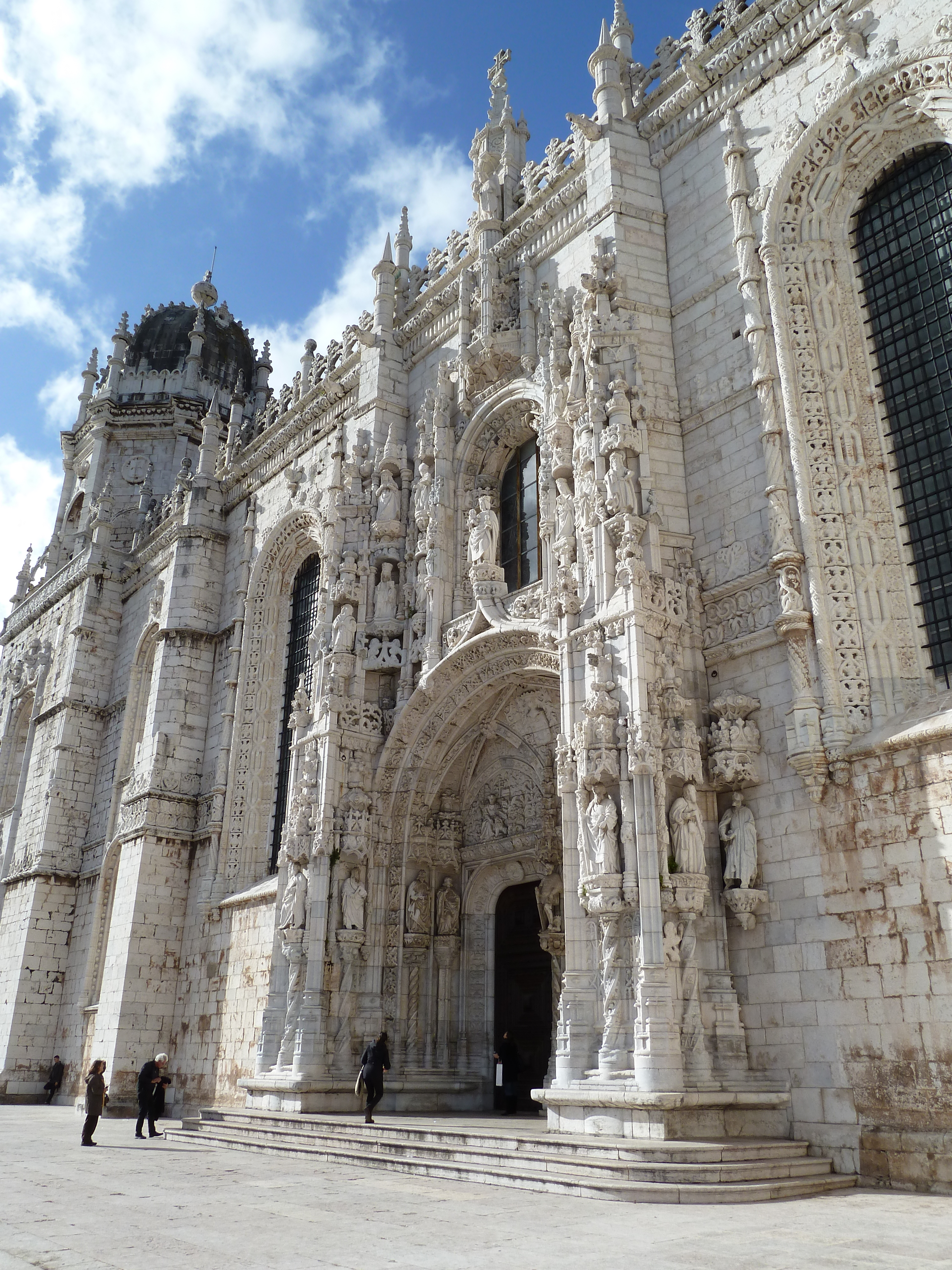 Exterior of the Hieronymites Monastery (Jerónimos Monastery) in Belém, Lisbon